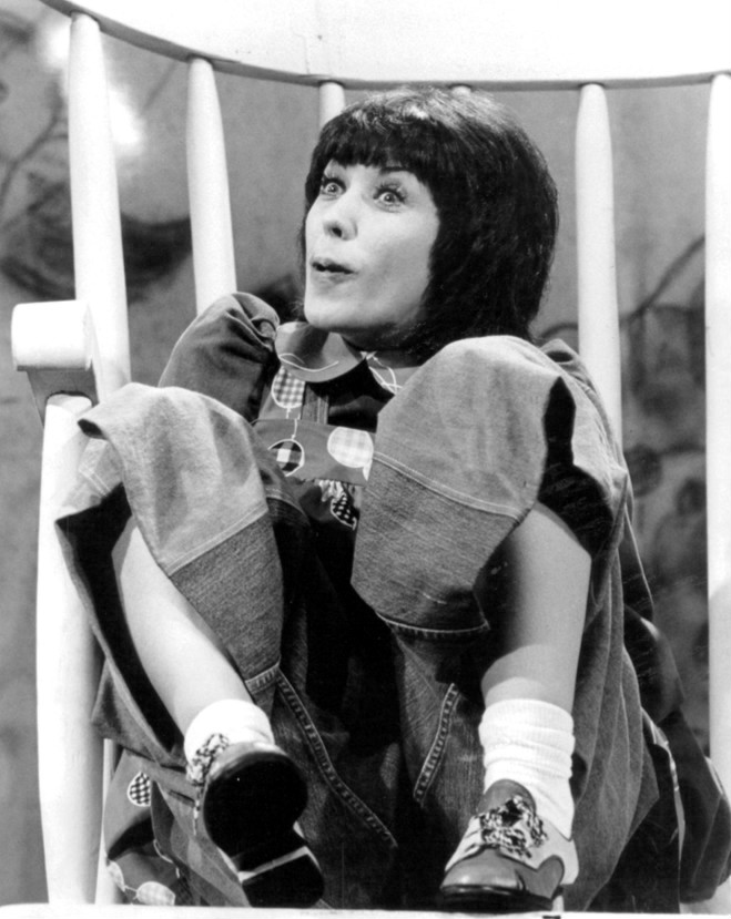 Publicity photo of Lily Tomlin as the character Edith Ann from The Lily Tomlin Show television special.